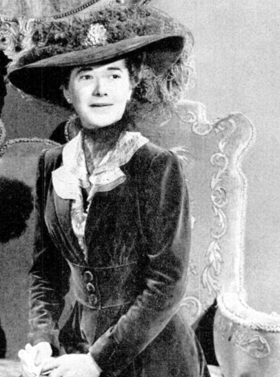 Promotional photograph for the film Wilson, starring Alexander Scourby and Ruth Nelson Caption reads as follows::Wilson (Alexander Scourby) and his first wife (Ruth Nelson) pose beneath a portrait of Mrs. Tyler in one of the many luxurious White House scenes.